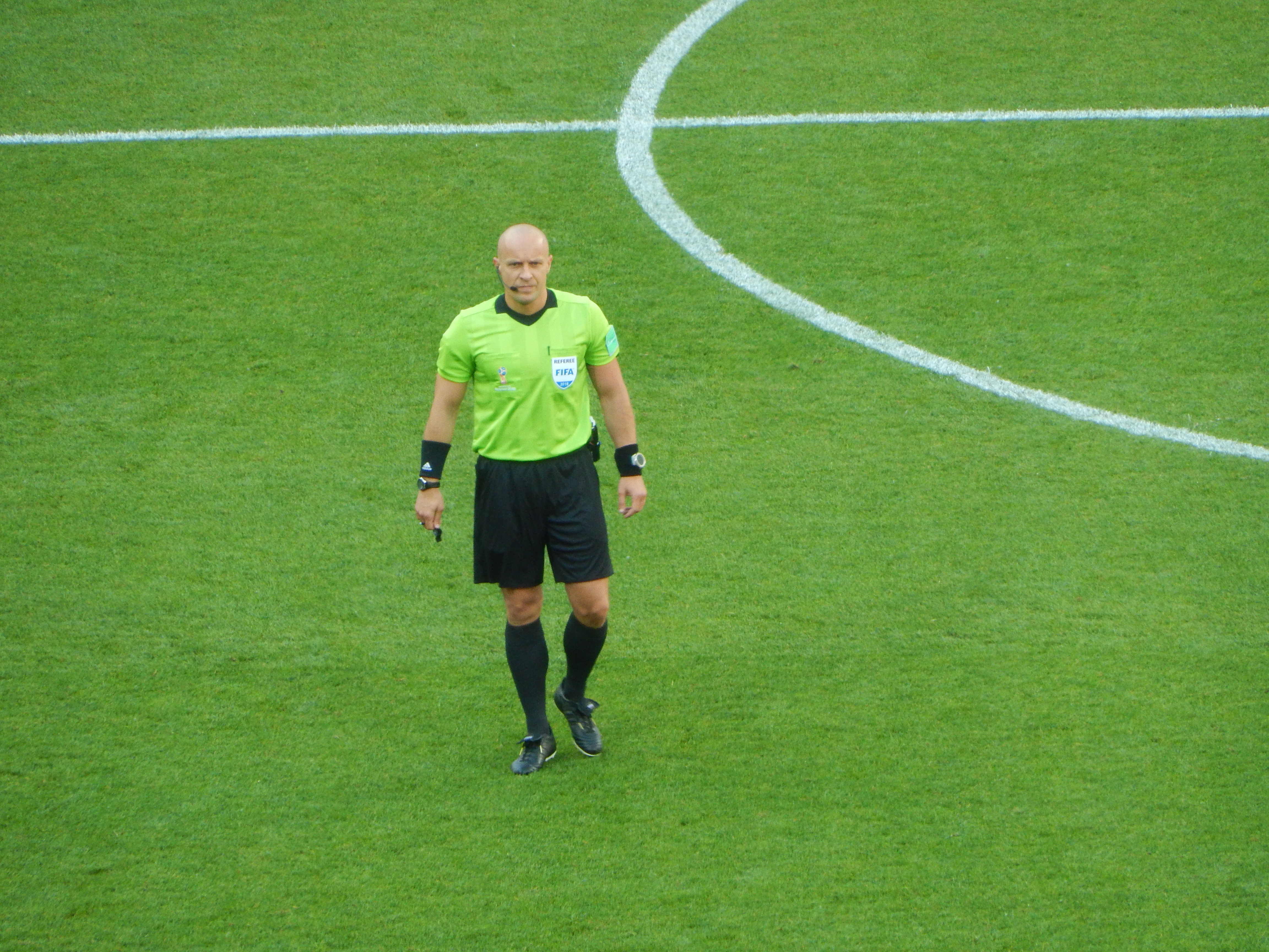 FIFA World Cup 2018, Group D, Argentina vs. Iceland